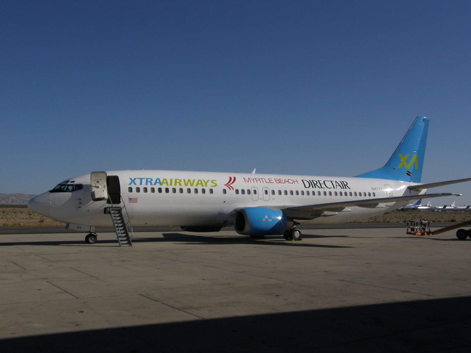 Xtra Airways 737 at Mojave